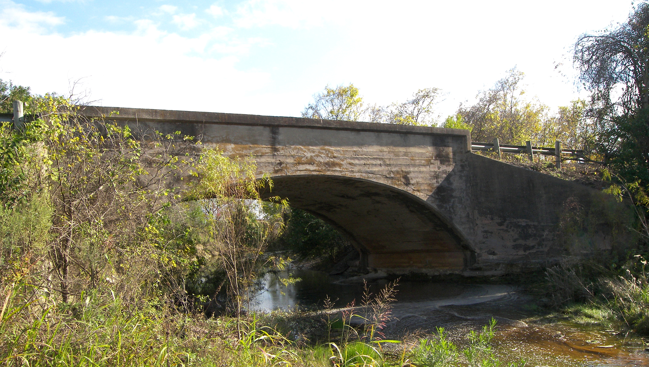 The Bunton Branch Bridge located in Hays County, Texas, United States. The property was listed on the National Register of Historic Places on February 19, 2002 and designated a Recorded Texas Historic Landmark in 2012.